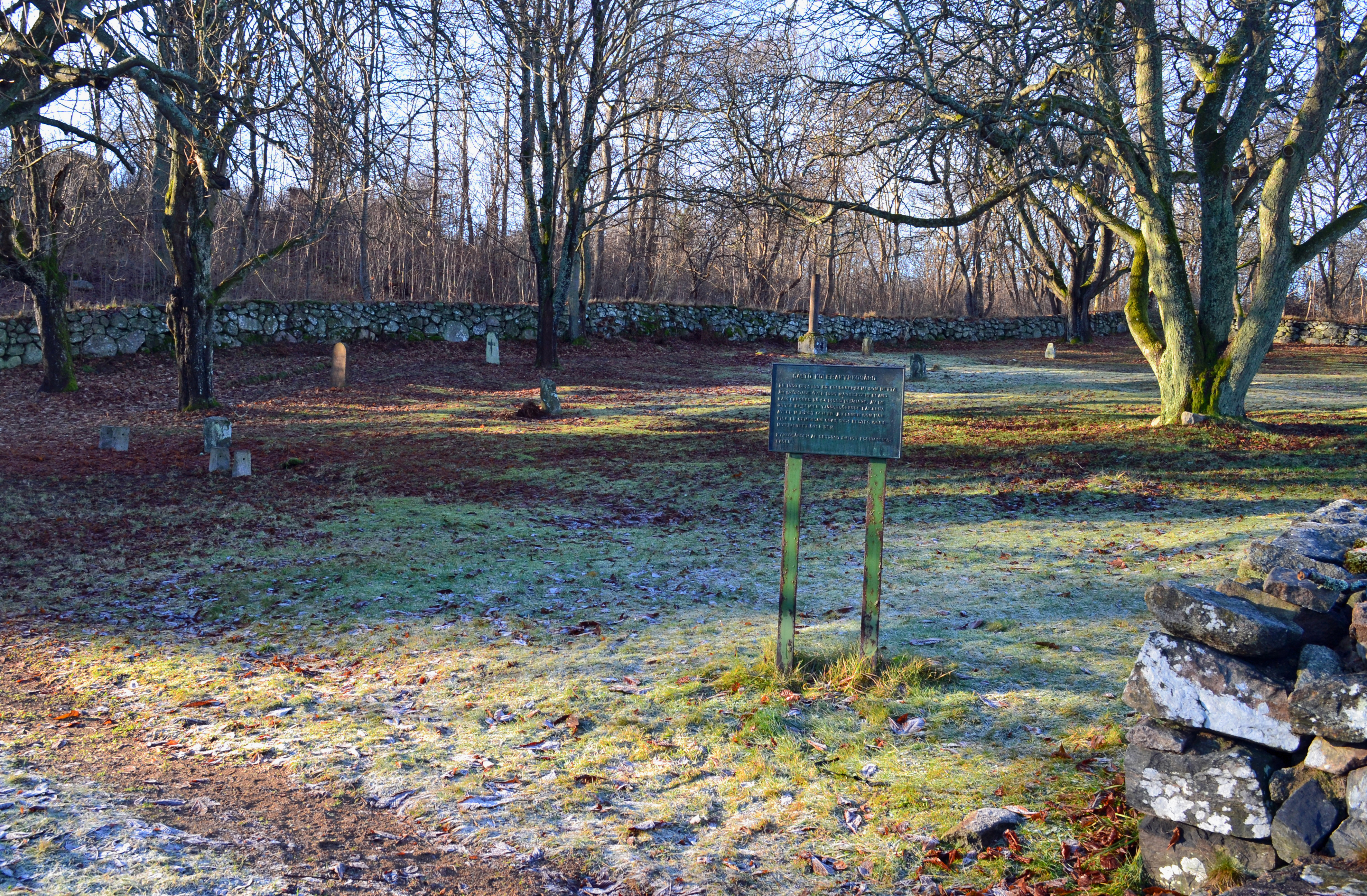 Cholera cemetery on Saltö outside Karlskrona. Built during the epidemic that hit Karlskrona in 1853, which killed over 1000 people. The city's population was at this time about 14 000 people.